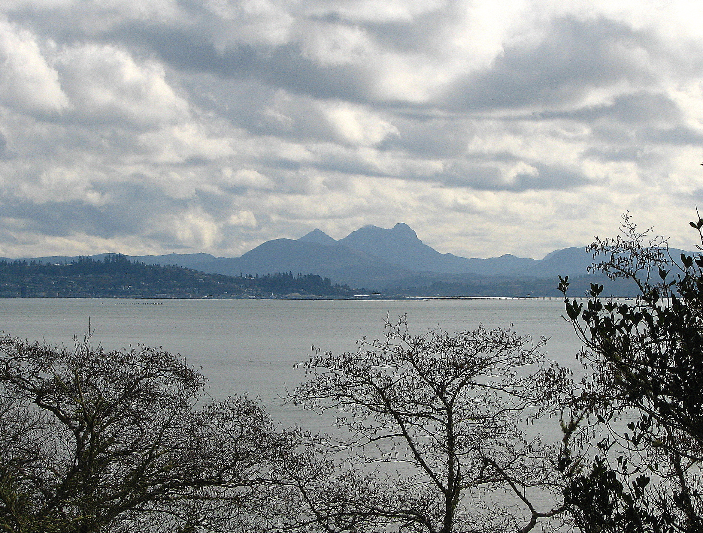 The city of Astoria, Oregon, United States (middle distance), and Saddle Mountain as seen across the mouth of the Columbia River from Chinook Point, Washington. Photo taken from adjacent to historic coastal artillery emplacements at Fort Columbia State Park.